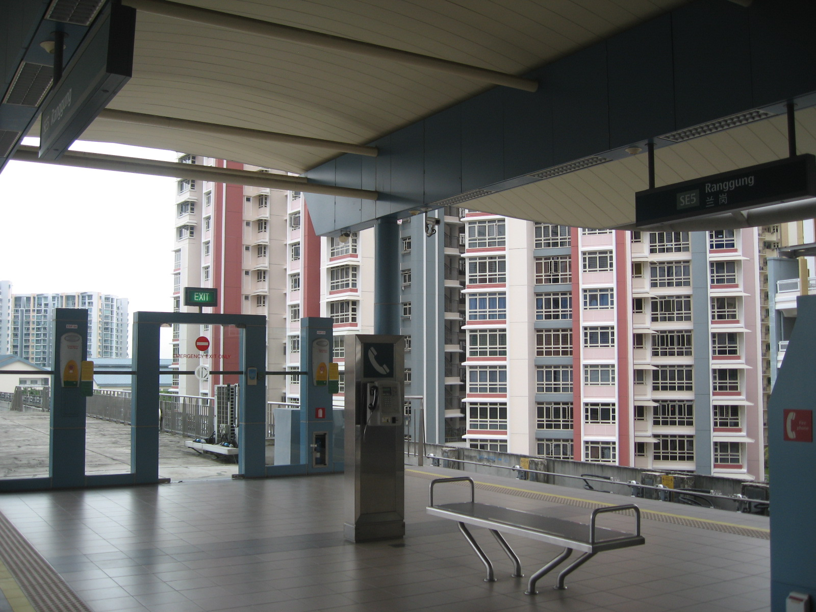 Ranggung LRT Station.